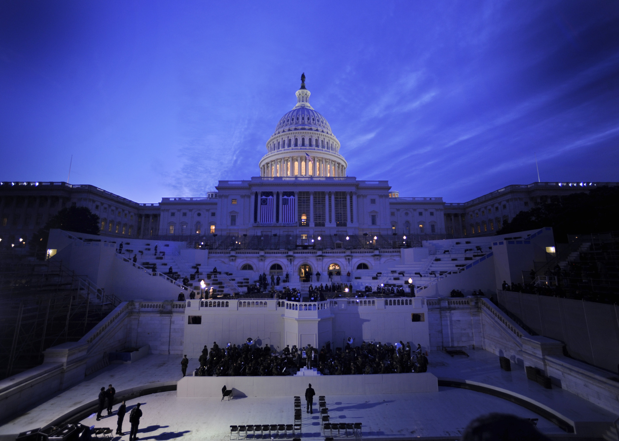 U.S. service members prepare for the 56th Presidential Inauguration rehearsal in Washington, D.C., Jan. 11, 2009.